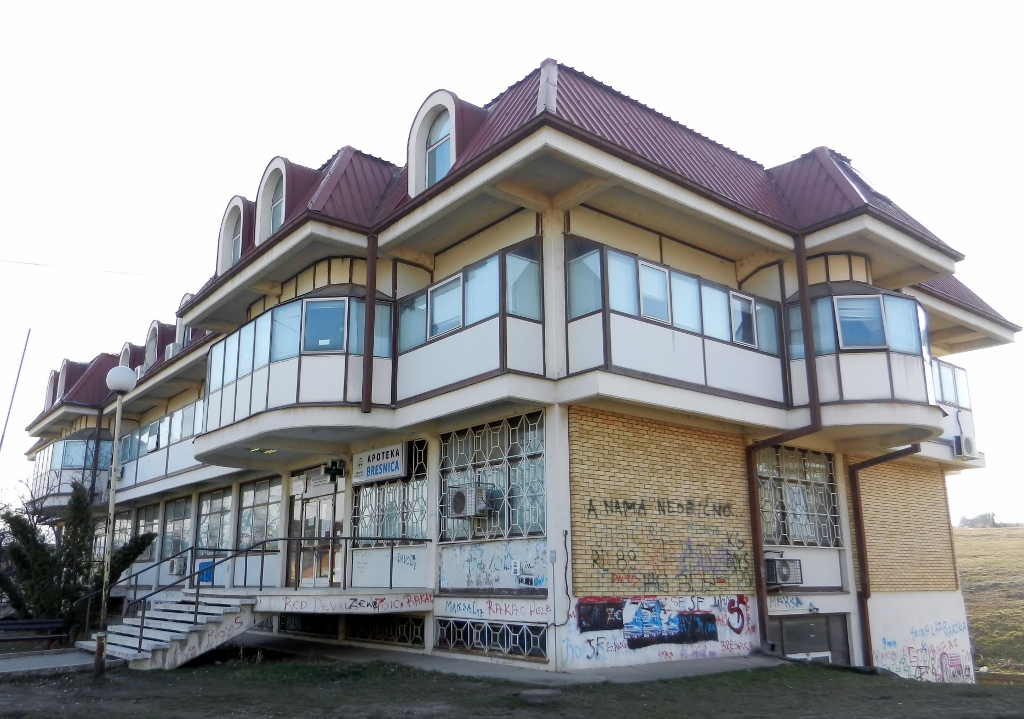 Bresnica Medical Center Kragujevac, front view, Veroljub Atanasijevic Architect 1988